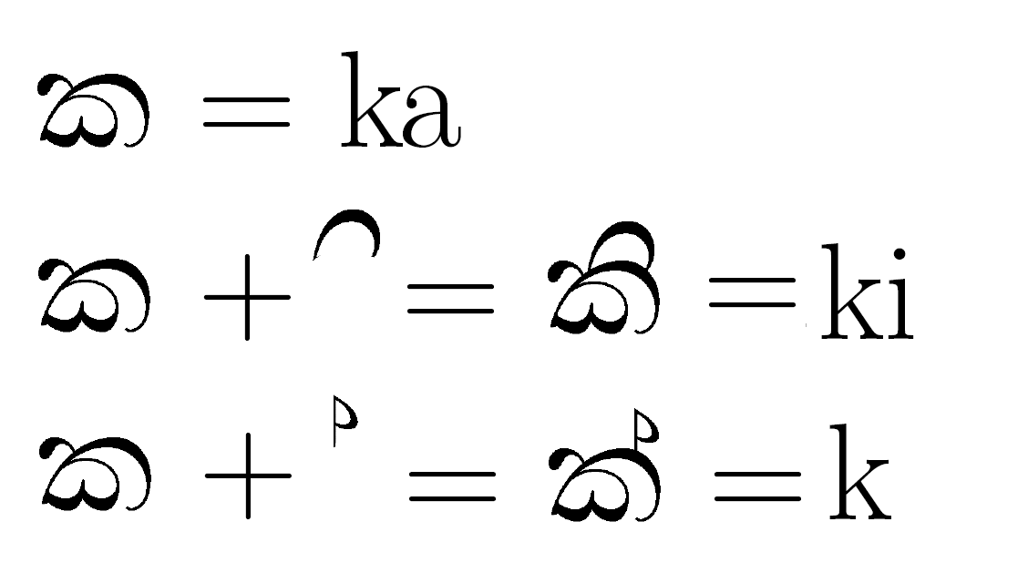 How Sinhala letter "ka" is modifyed in order to get different sounds.